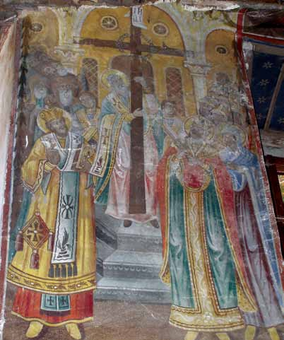 Saint Nicholas Church in Dolen The Exaltation of the Holy Cross Fresco